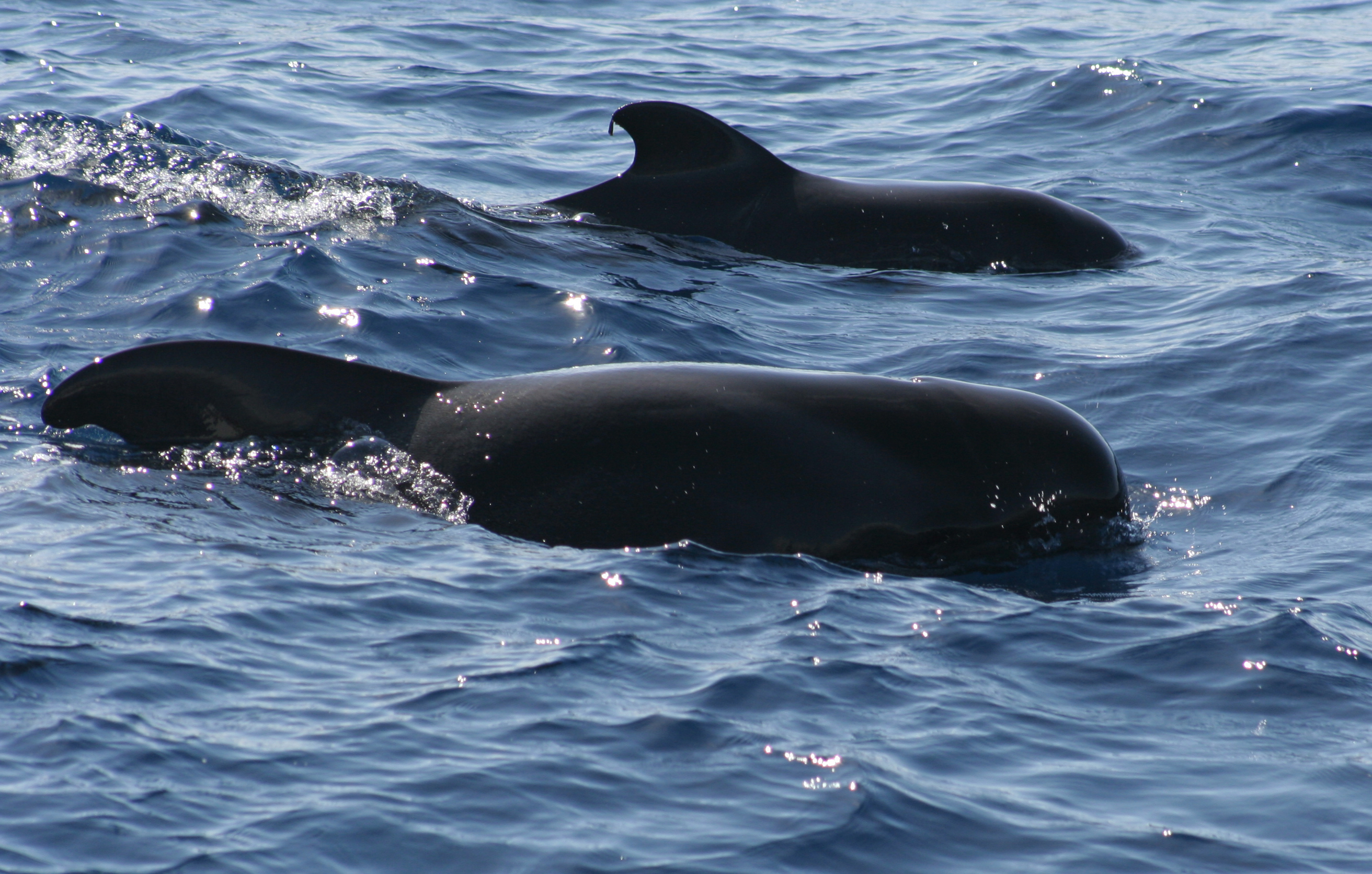 Short finned pilot whales viewed from the Freebird one catamaran between Tenerife and La Gomera.